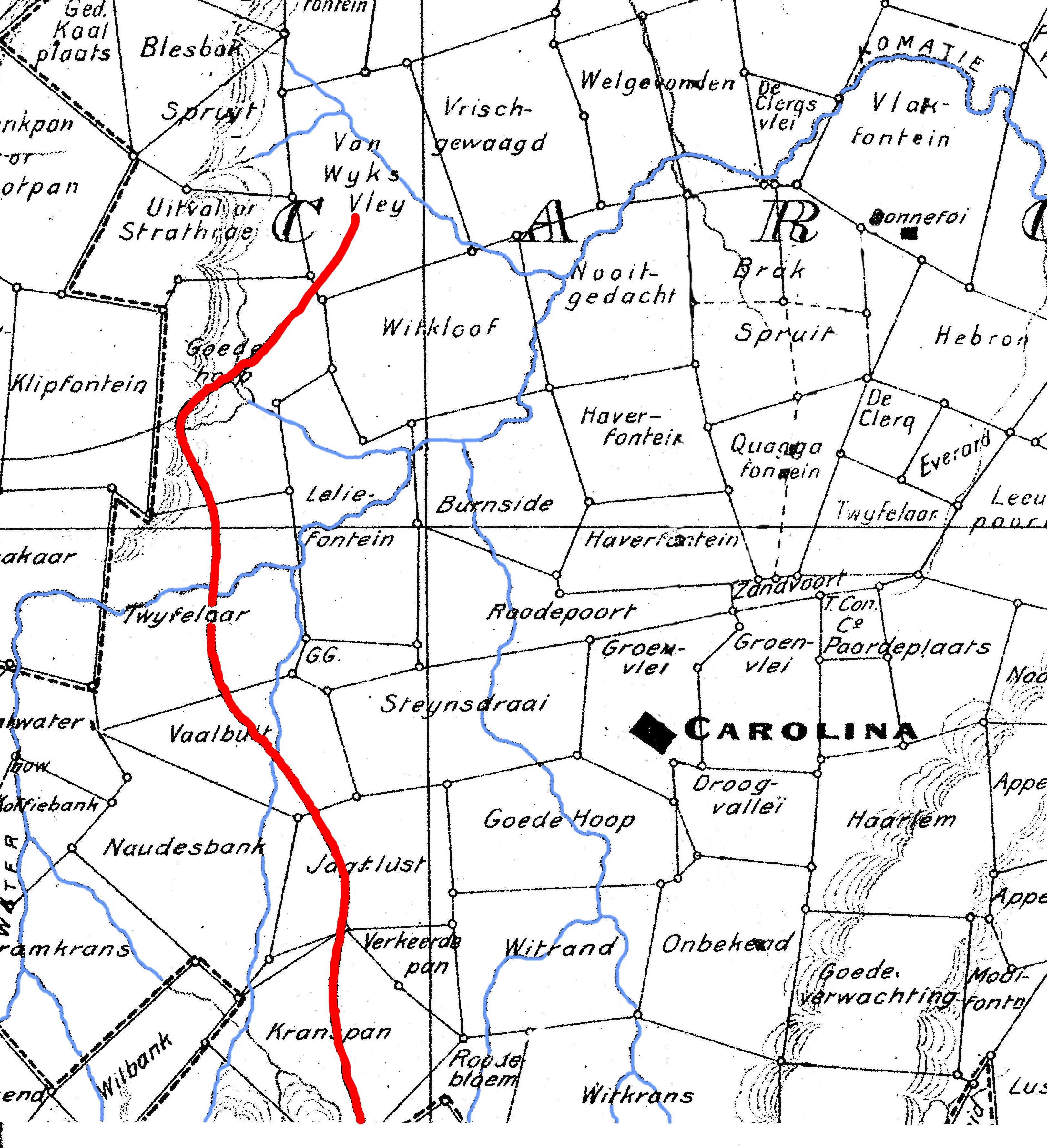 The map shows the advance of general Buller in August 1900 during the battle of Bergendal in South African War